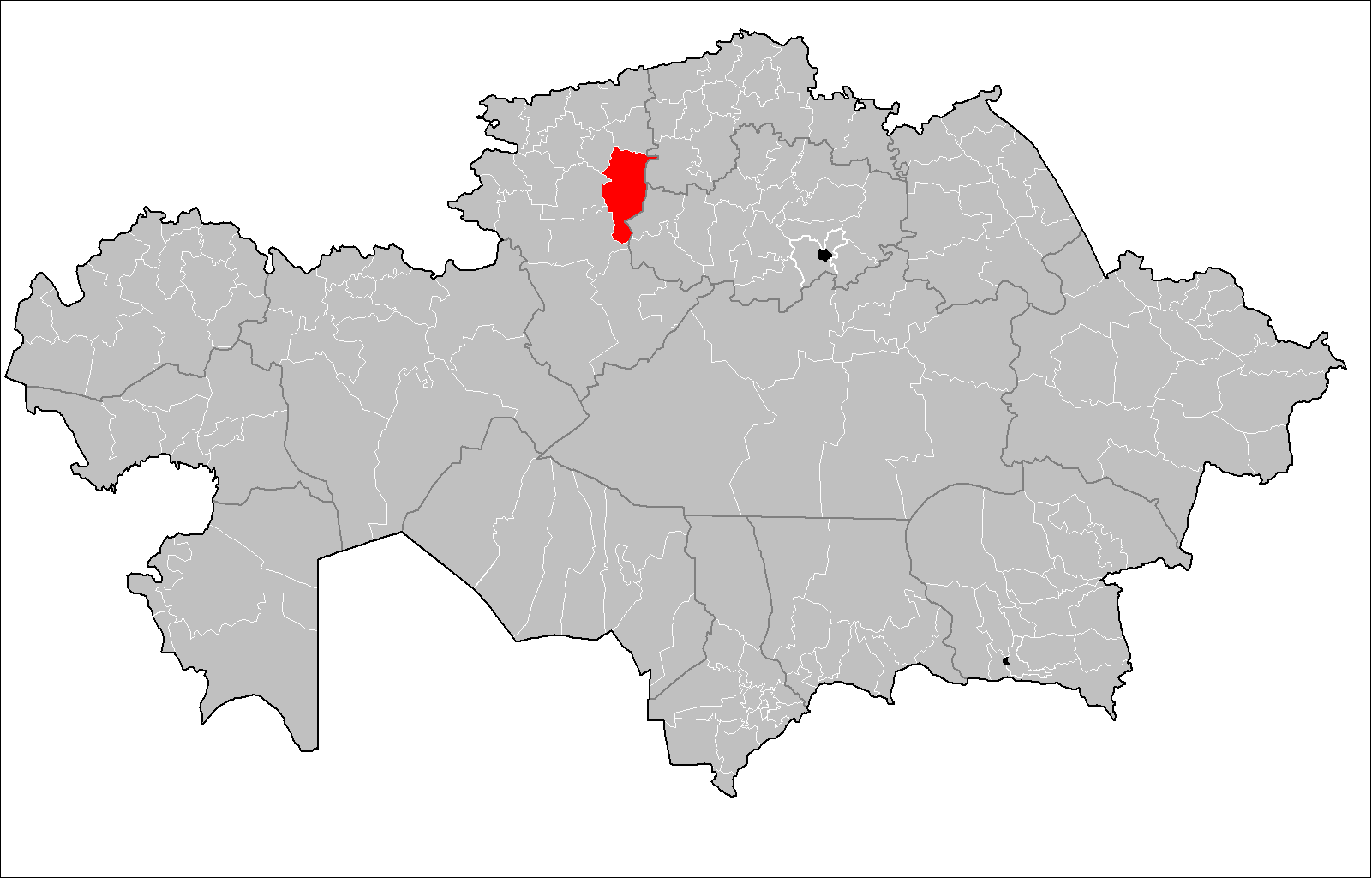 Map of the rayons of Kazakhstan. Created by Rarelibra 16:49, 3 August 2007 (UTC) for public domain use, using MapInfo Professional v8.5 and various mapping resources.